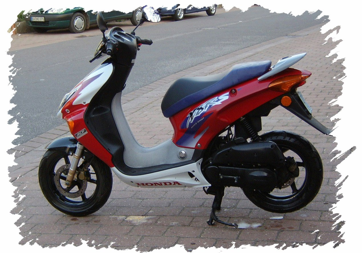 Honda X8R-S, 1998, Colour: white-darkred